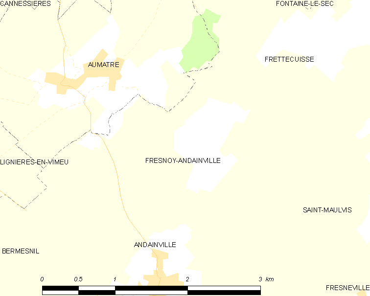 Map of French municipality Fresnoy-Andainville